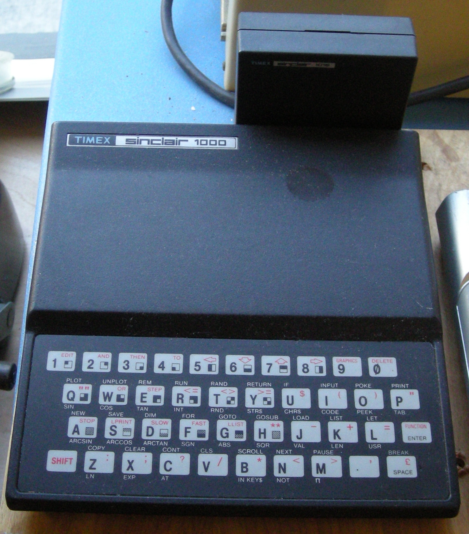 Timex Sinclair 1000 (TS-1000, the American version of the Sinclair ZX81) with rampack attached.